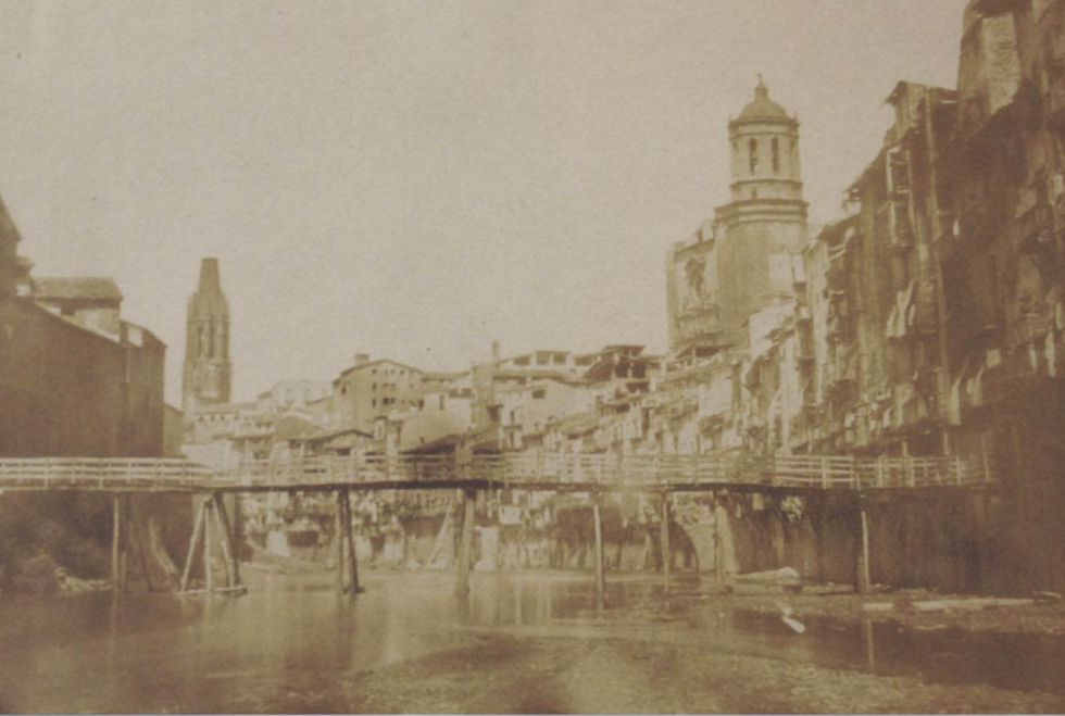 Oldest known photograph of Girona, found in the National Library of Ireland, Dublin.